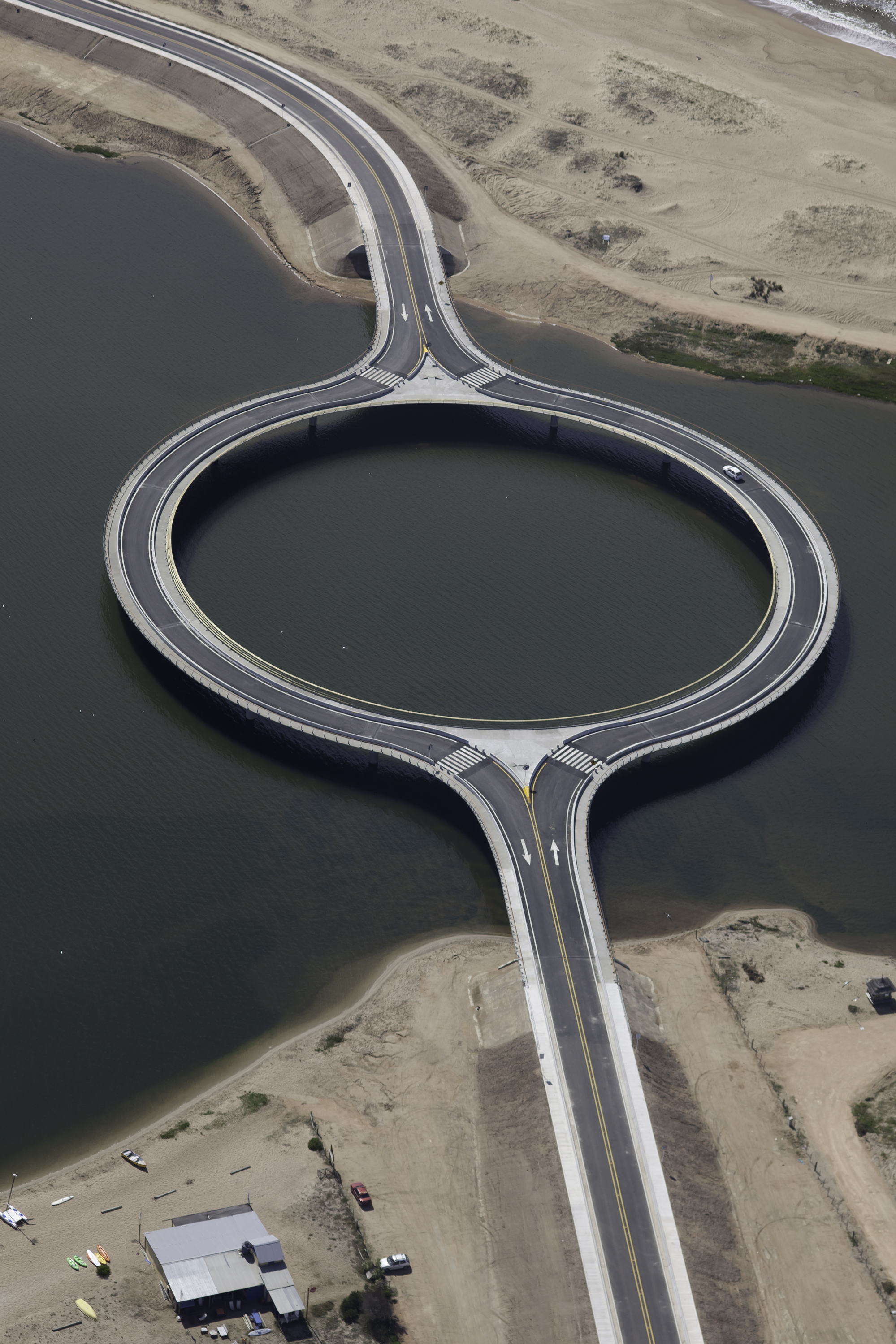 This is the first bridge designed by architect Rafel Viñoly, who was also designer of the Jazz Lincoln Center in New York and Princeton University Stadium amongst numerous projects. It is iconic, unique in its circular design and ecological in its attention to the environment above, around and beneath it. Speed limits keep noise and pollution to a minimum and its height allows the continued safe passage of fish and fishing boats. Maldonado - Rocha, Uruguay. Camera: Canon EOS 5D Mark II Lens: Zeiss Makro-Planar T* 2/100 ZE 5 ISO: 100